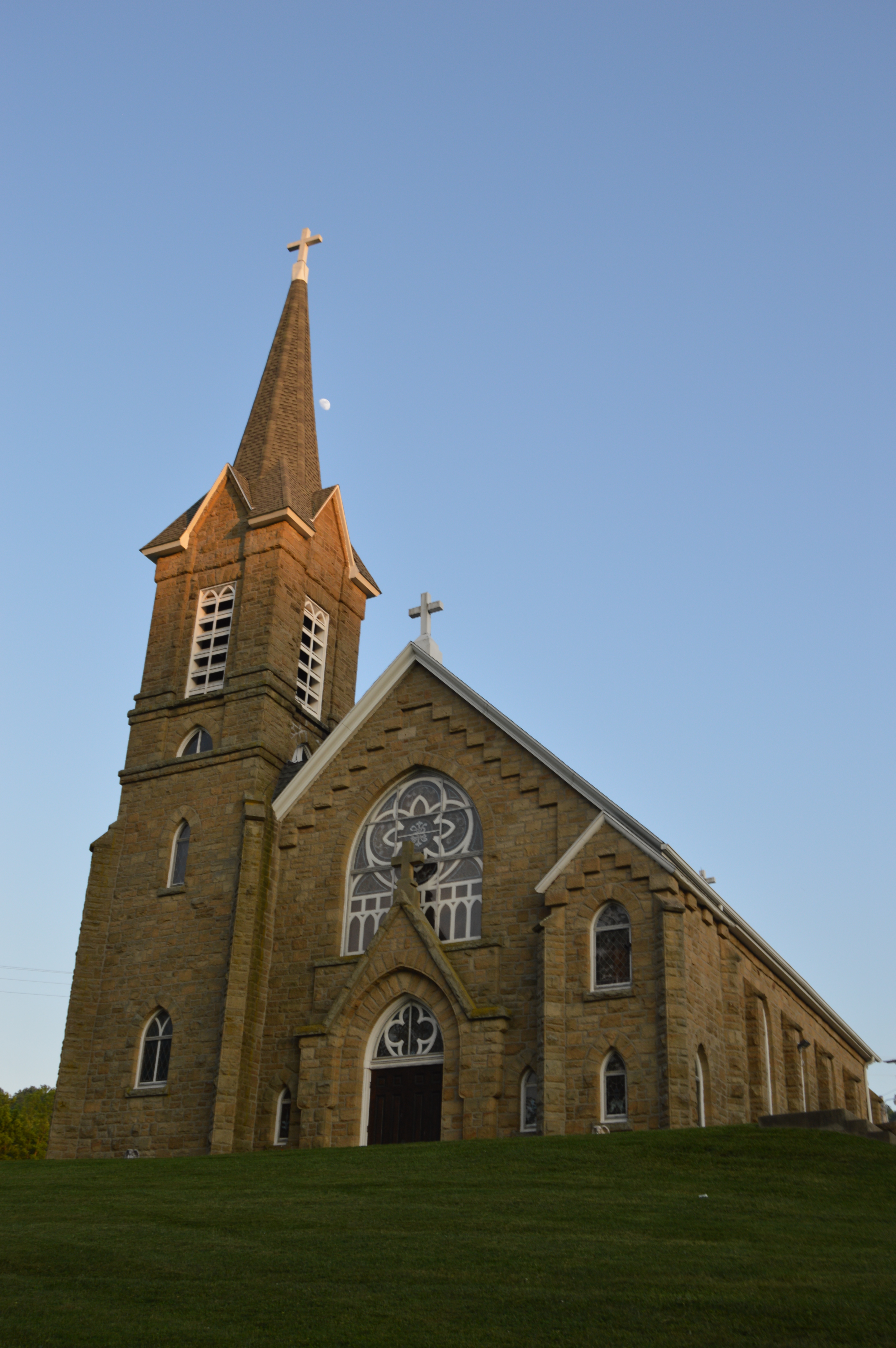 Front and western side of St. Henry's Catholic Church, located off Brumbaugh Road in Harriettsville, Ohio, United States. Built in 1894, it is listed on the National Register of Historic Places.